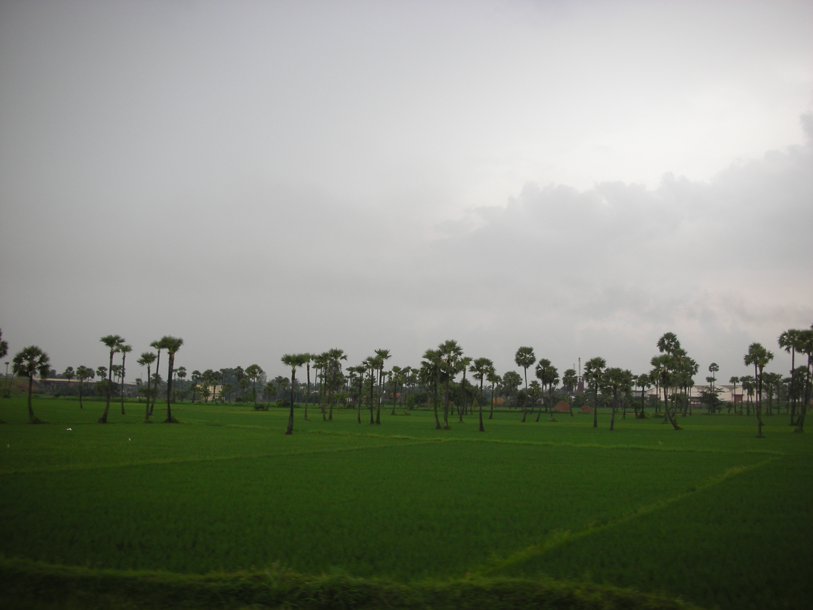 Kakinada outskirts, East Godavari district